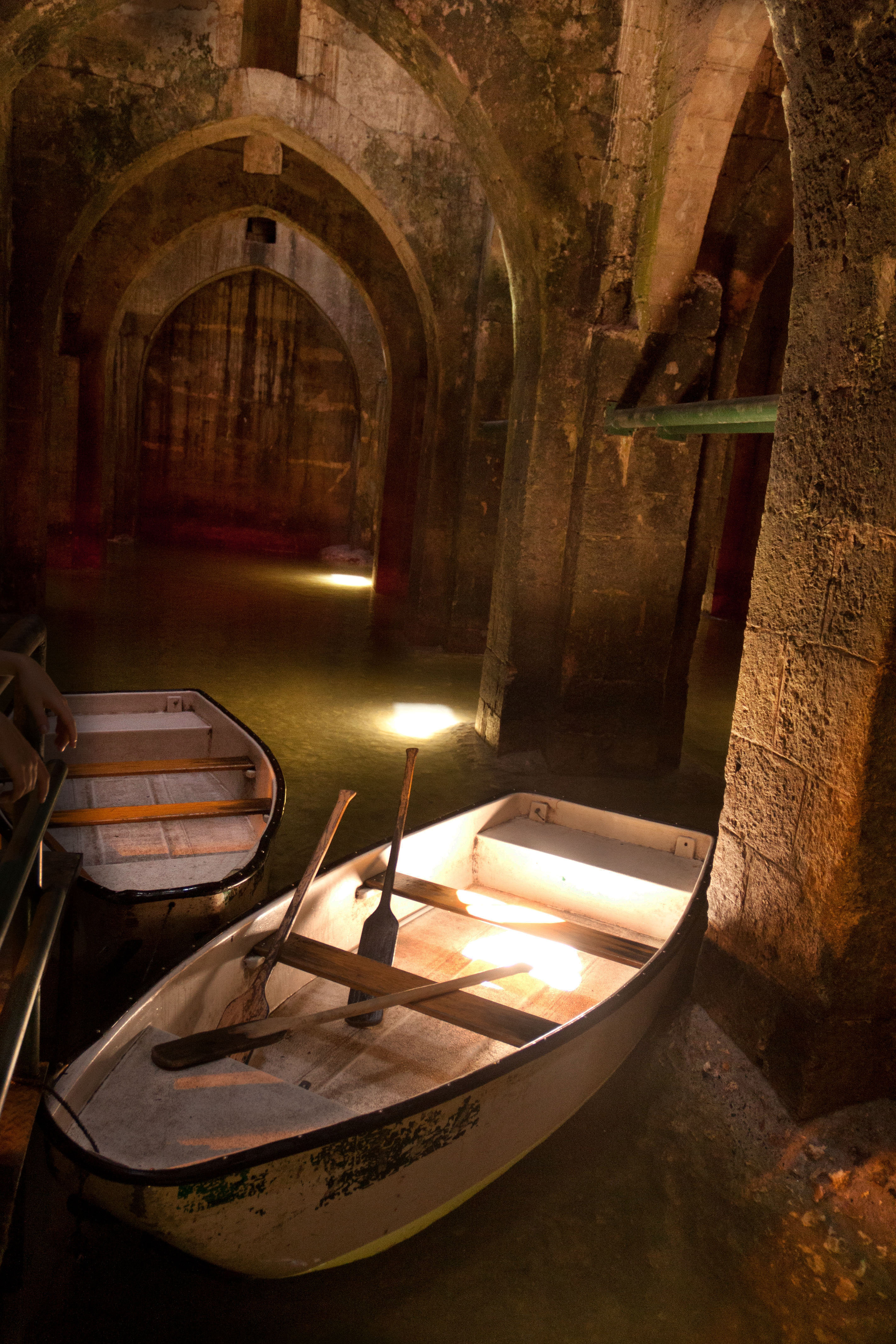 Arcs Pool of Ramla